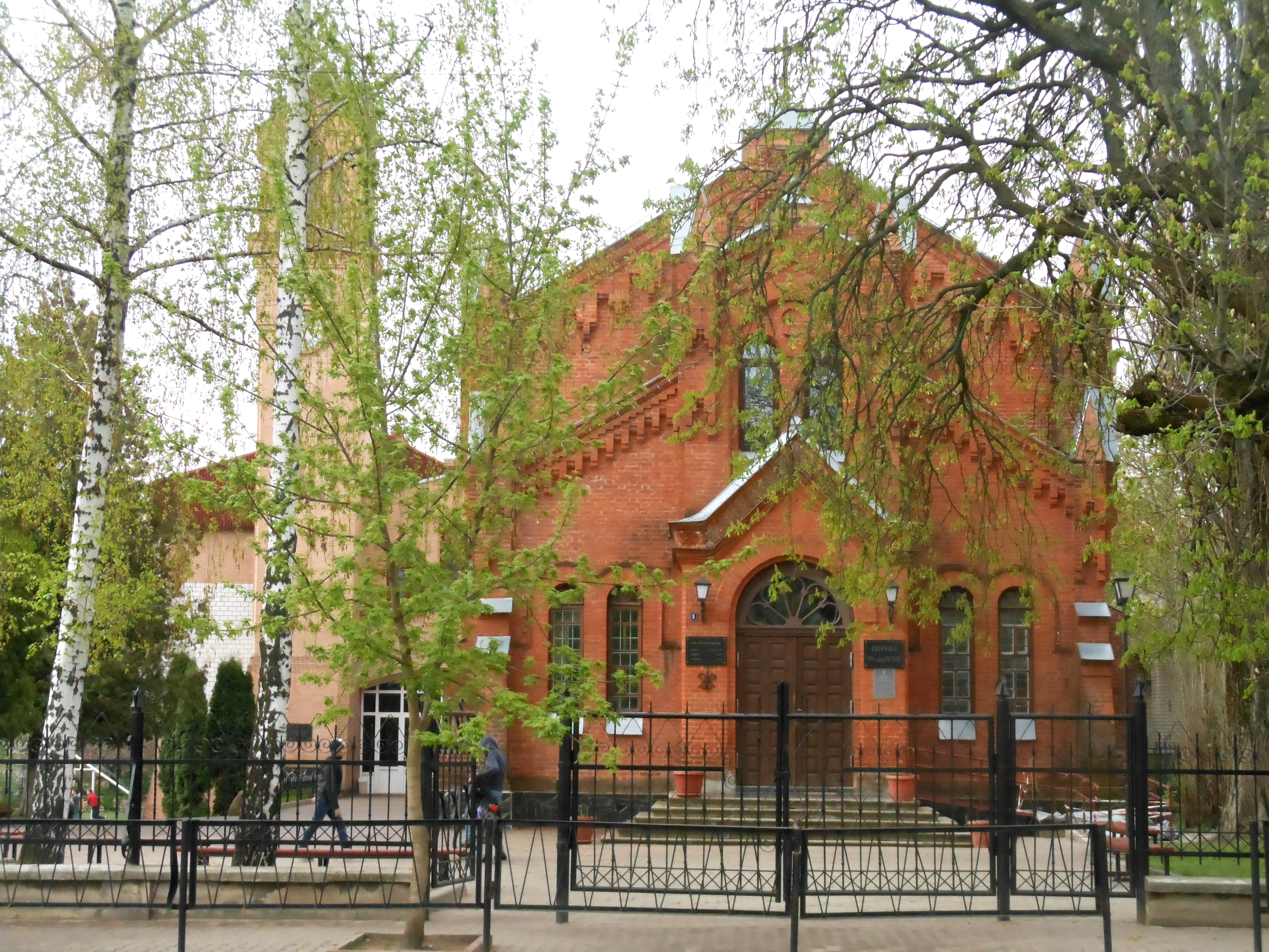 Baptist church in Zhytomyr, formerly a Lutheran Church